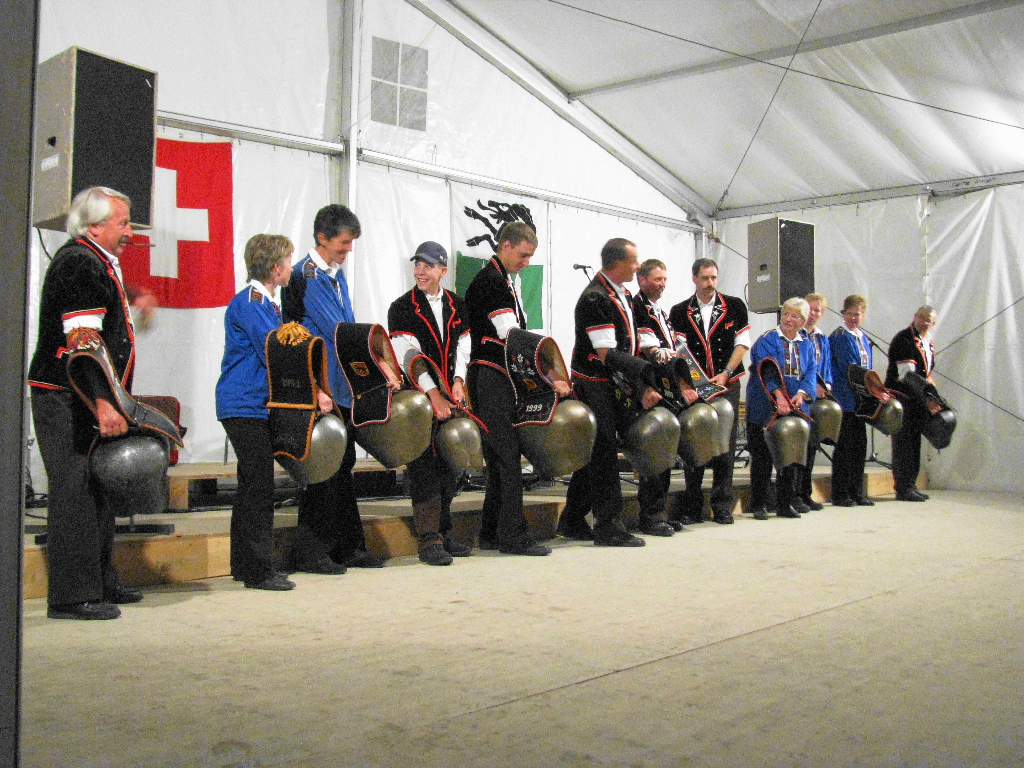 cow bells players